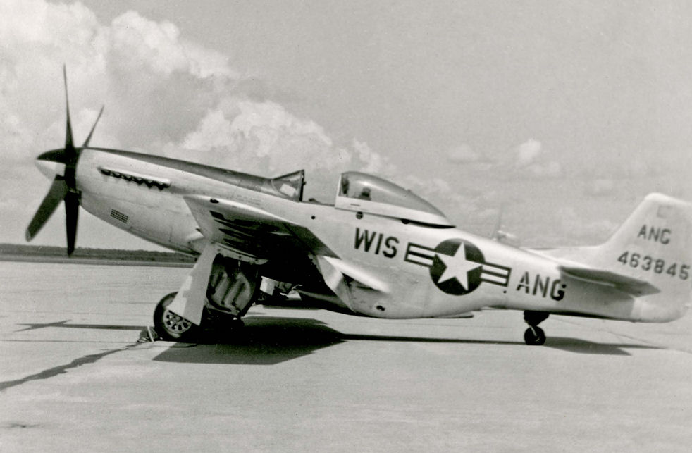 128th Fighter-Interceptor Group North American F-86A-5-NA Sabre 48-129